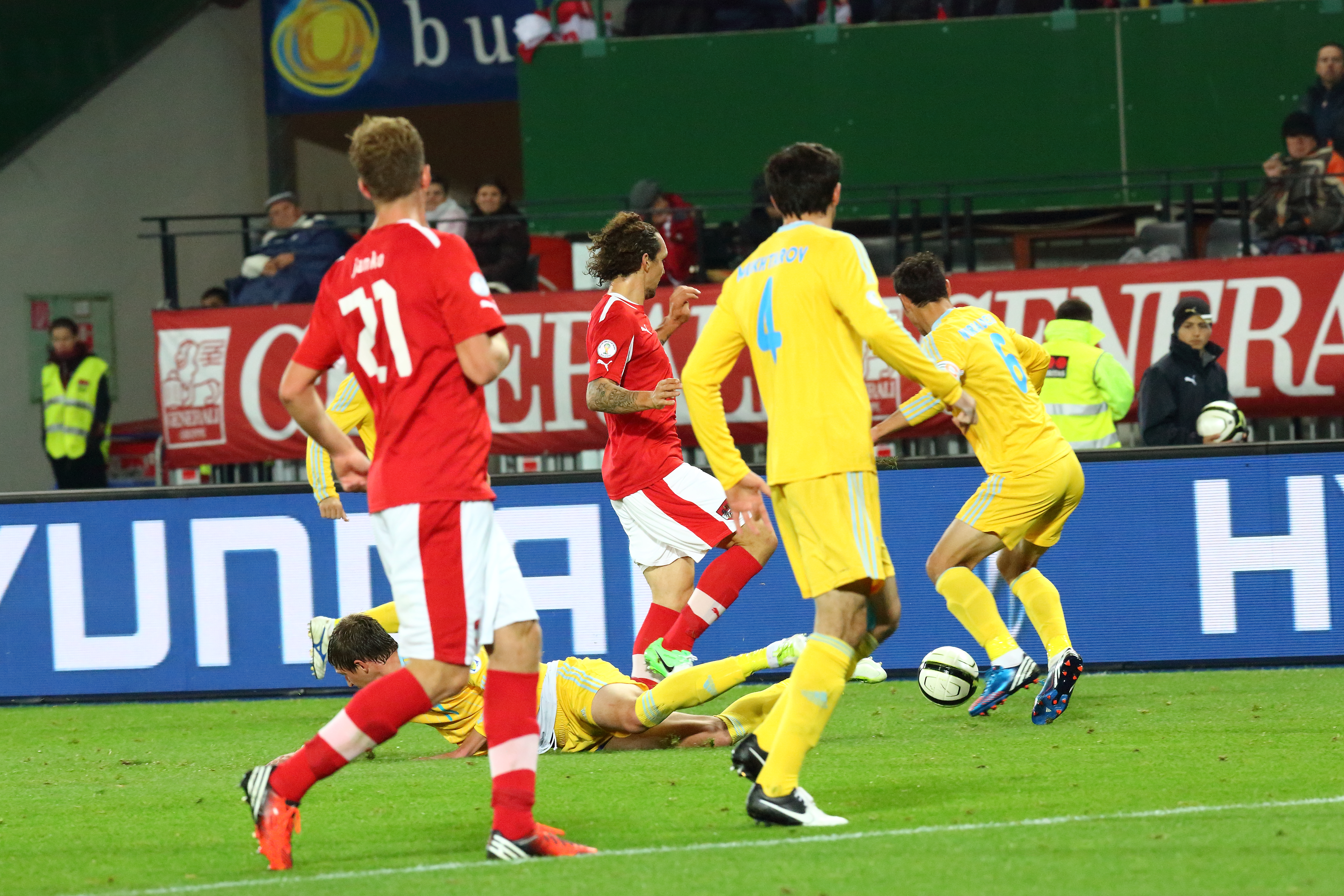 Numerous Players